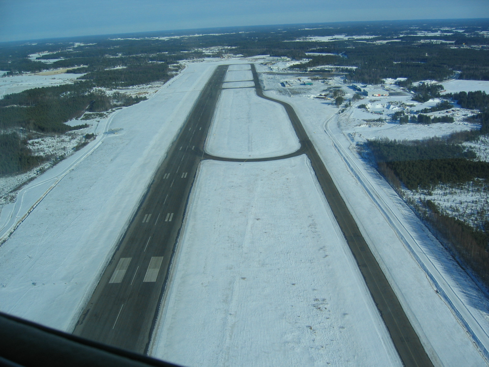 Turku Airport runway in Finland from air